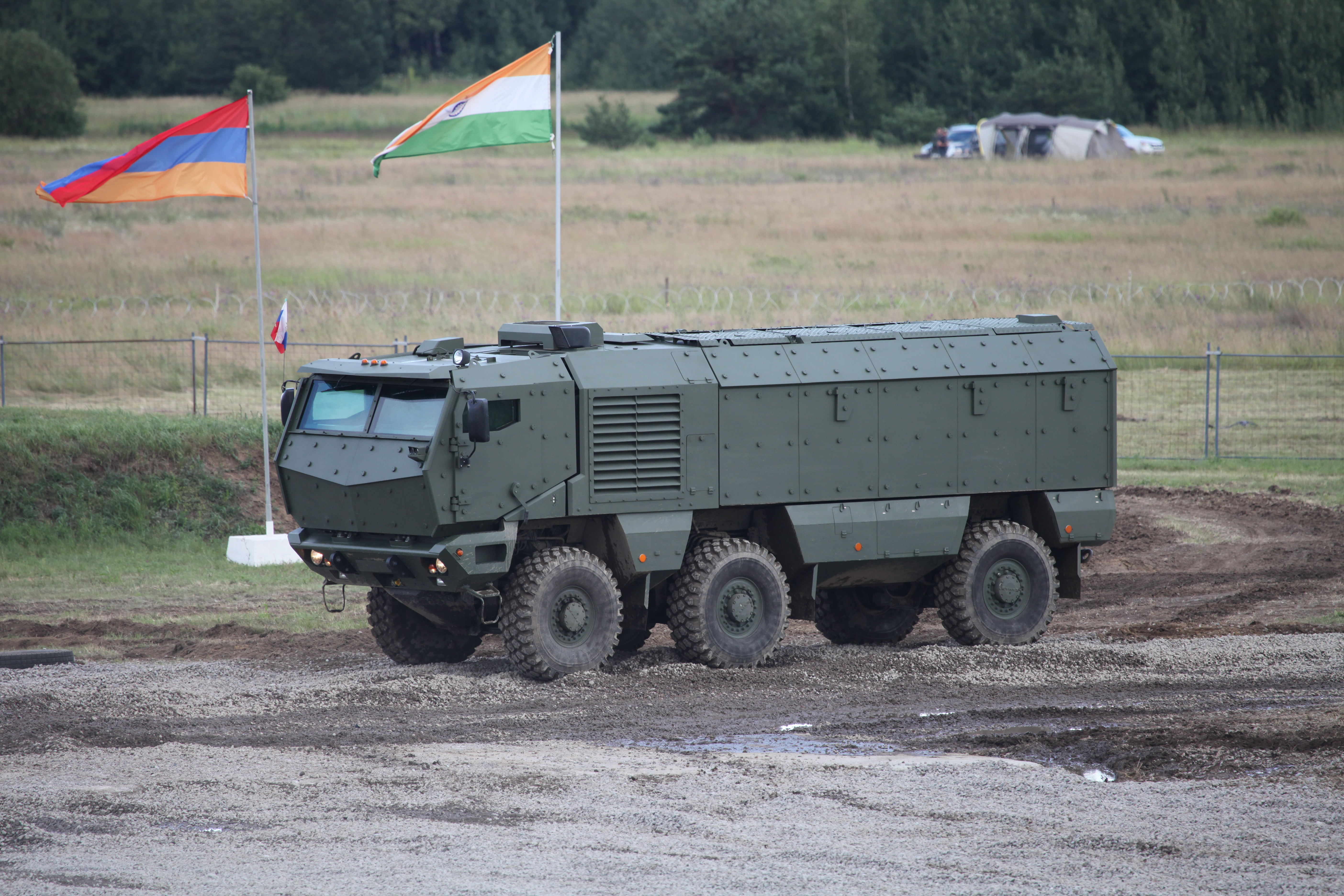 KamAZ-63968 Typhoon at the exhibition Engineering technologies 2012.